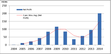 10 year Net Profit Growth Chart